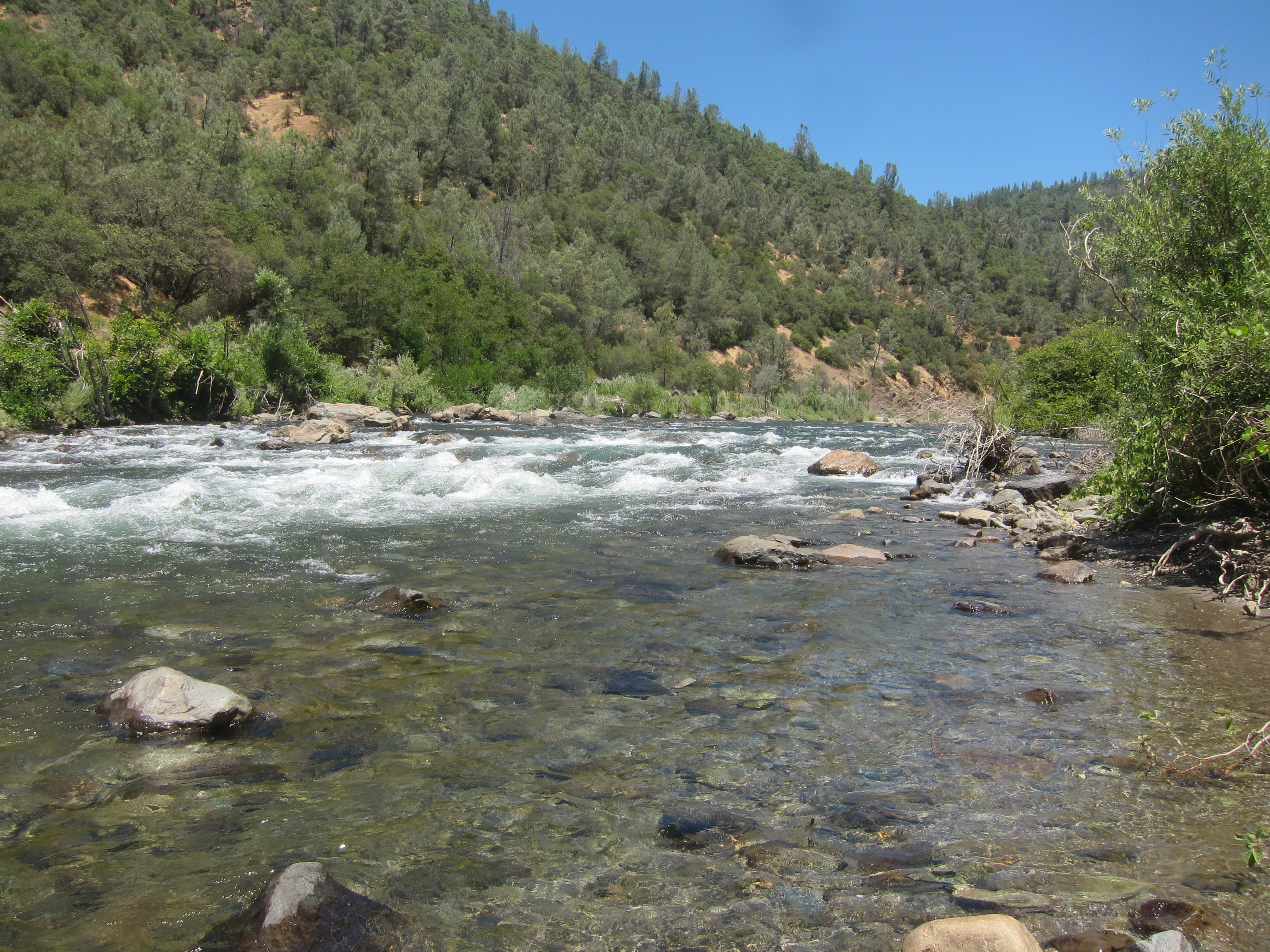 Middle Fork American River at bottom of Sliger Mine Road, Auburn SRA